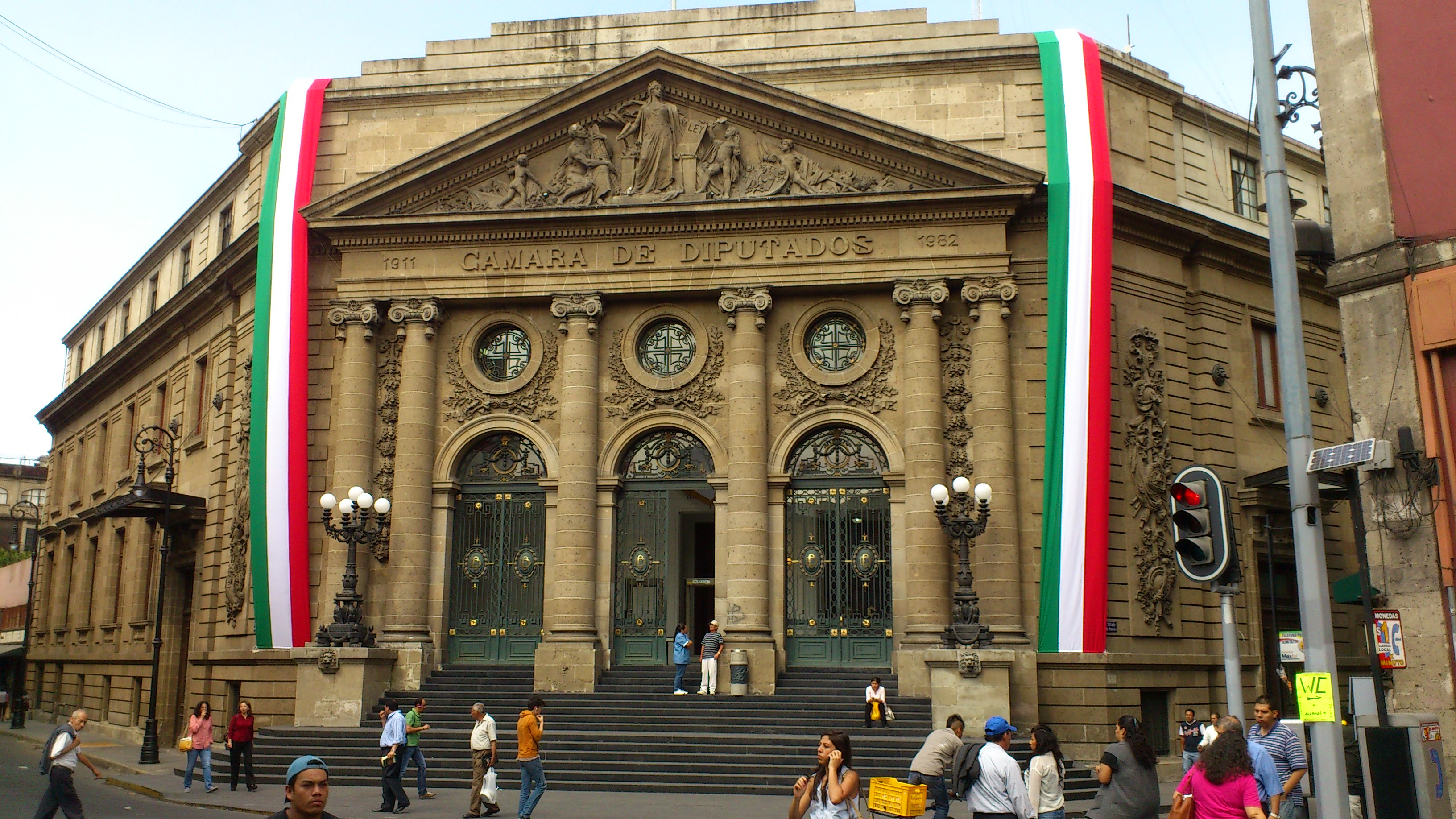 House of the Legislative Assembly of the Federal District